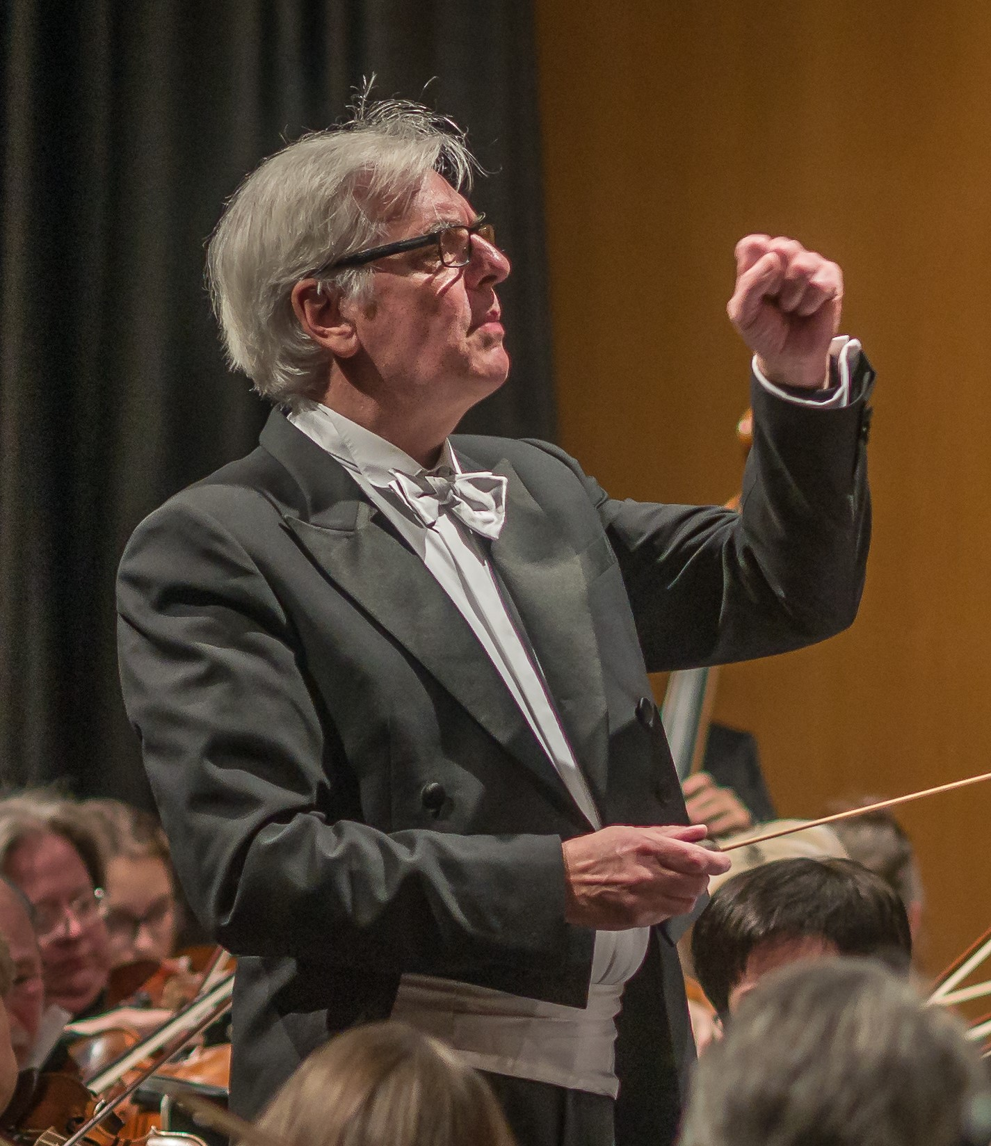 Sinfonieorchesters Villingen- Schwenningen with conductor Jörg Iwer at Mozart Saal, Donauhalle, Germany